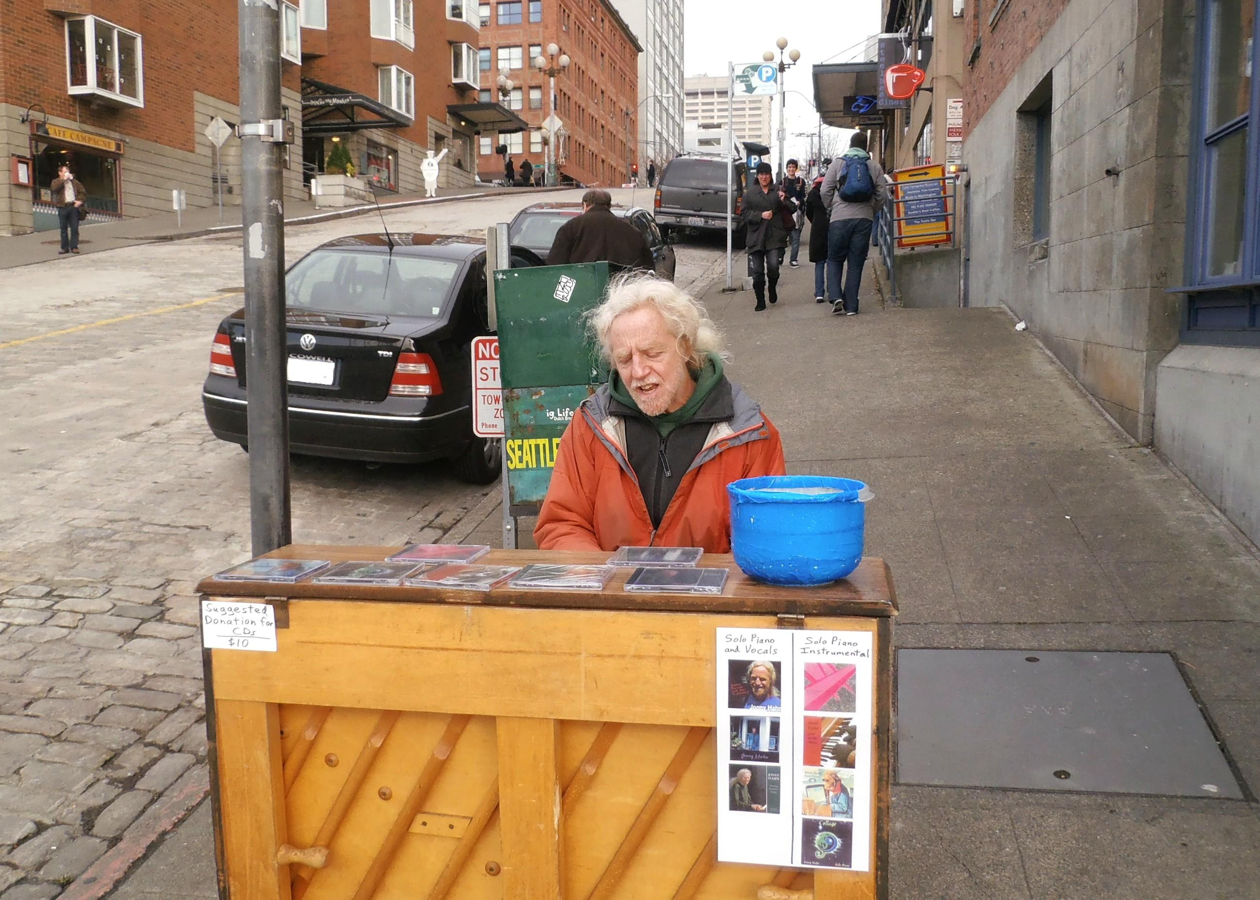 Jonny Hahn playing the piano outdoors in January, at the Pike Place Market in Seattle, Washington.